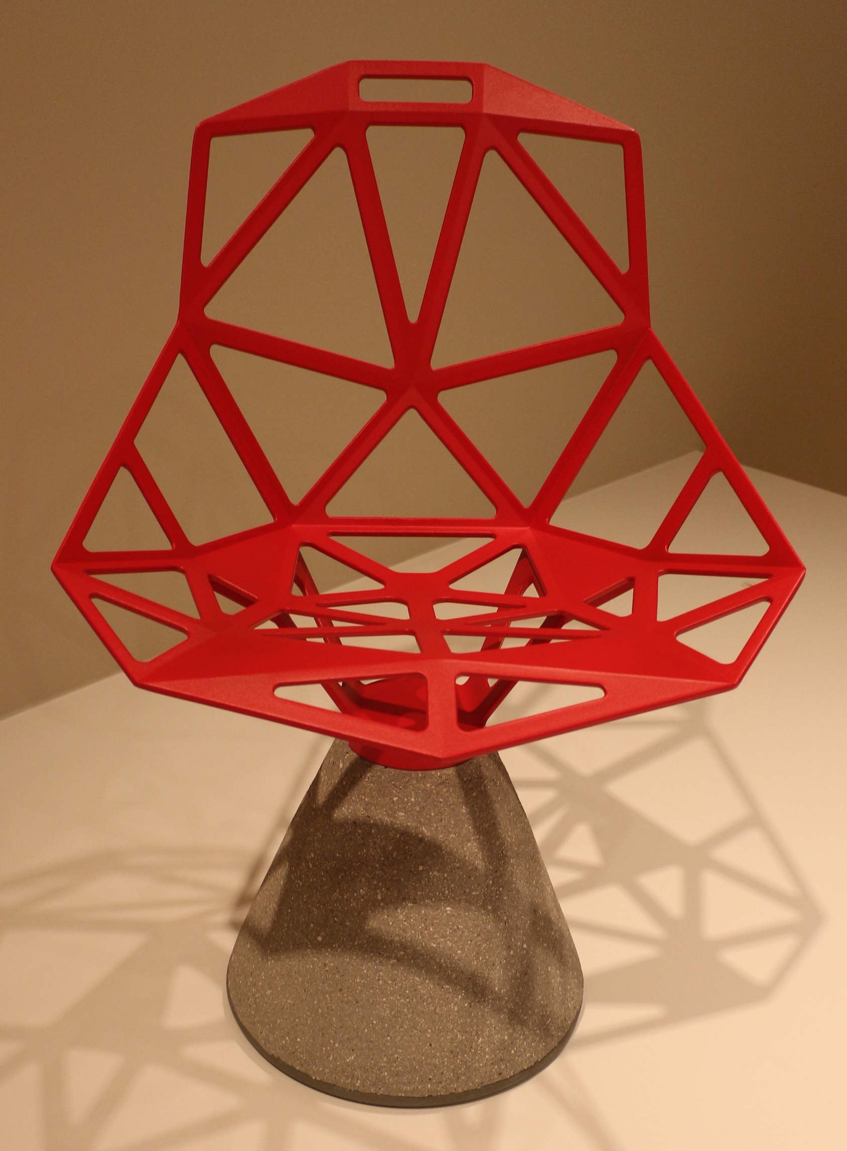 Furniture in the Indianapolis Museum of Art